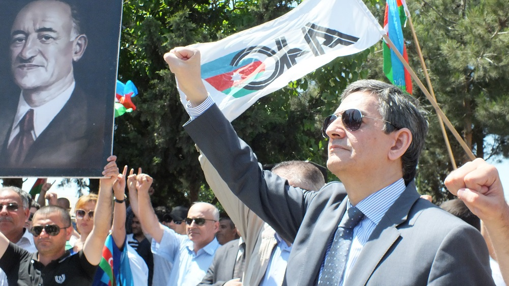 Ali Karimli, during protests.